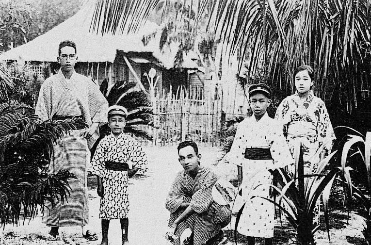 Oubeikei-Tomin (Gonzalez Family) in the first half of the 20th century